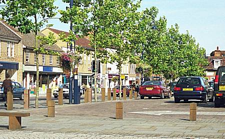 This image was copied from en. The original description was: St Neots Market Square, Cambridgeshire, UK (2000, taken by Chris Jefferies) This photo shows St Neots Market Square on a normal, busy weekday. The square contains car parking, pedestrian areas, and a mosaic of Saint Neot; it is surrounded by shops, banks, cafes and other business premises. - Chris Jefferies 10:18, 20 Jun 2004 (UTC)